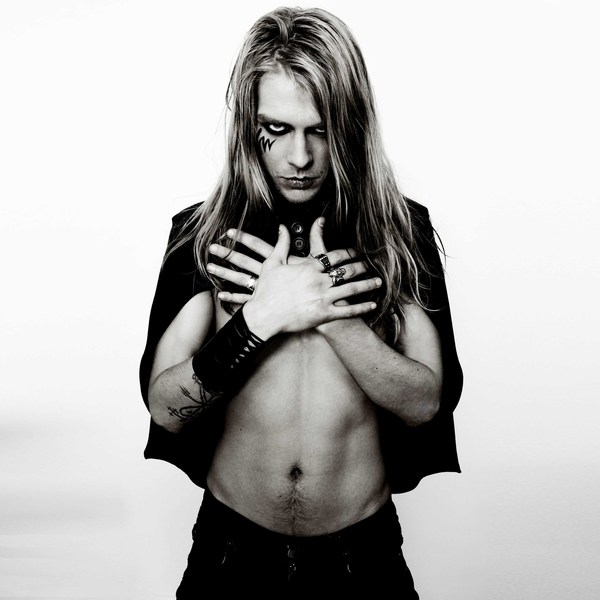 Ragnar Zolberg promo picture from 2011